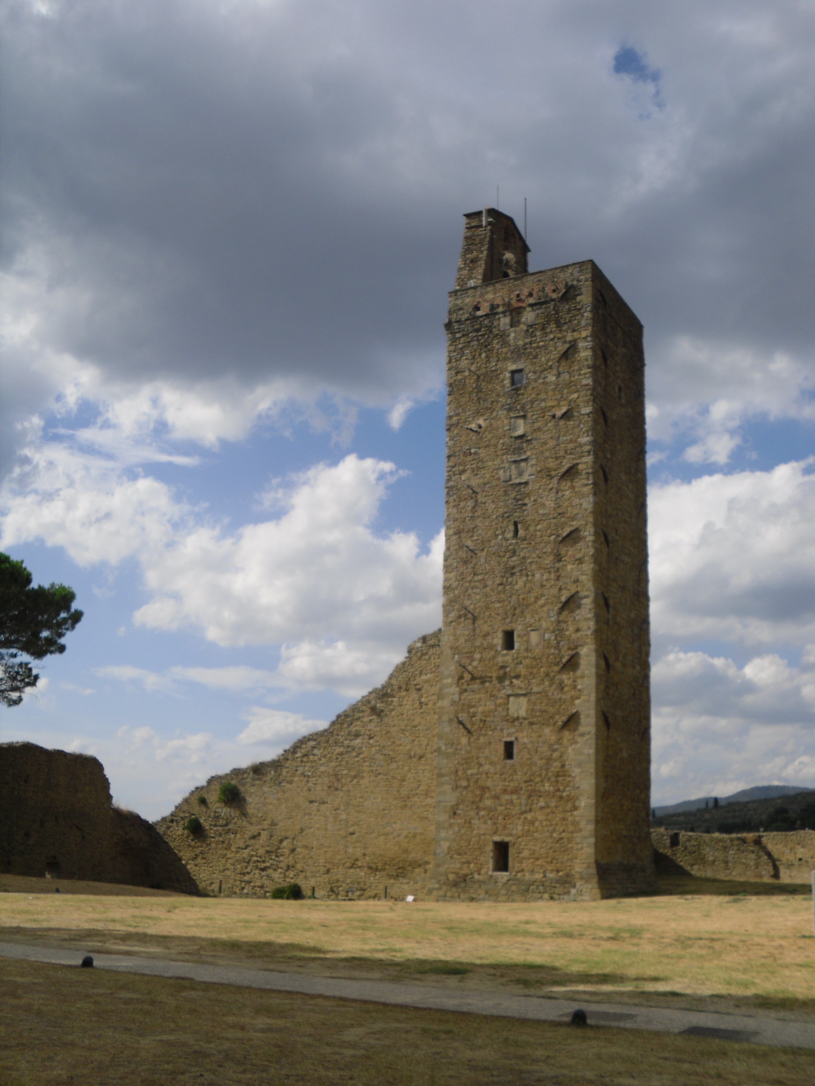 Cassero Tower (built during XIV century under the Perugian domination on the ruins of an ancient Etruscan tower) in Castiglion Fiorentino, Province of Arezzo, Italy